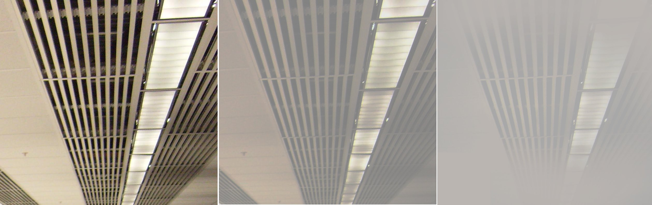 Illustration of the visual phenomena accompanying a grey-out loss of consciousness. In the left image, the patient sees the world normally. Center depicts the onset of the grey-out, where the world appears to lose contrast, often accompanied by auditory phenomena. In the right image, the world has vanished into grey except for a small "tunnel" in the center of the patient's visual field, but even there bright lights appear dim. Subsequently, the patient typically loses consciousness. Because these visual effects occur only to the patient, they cannot be photographed, and are simulated here. The patient (and artist) briefly lost consciousness while donating blood.